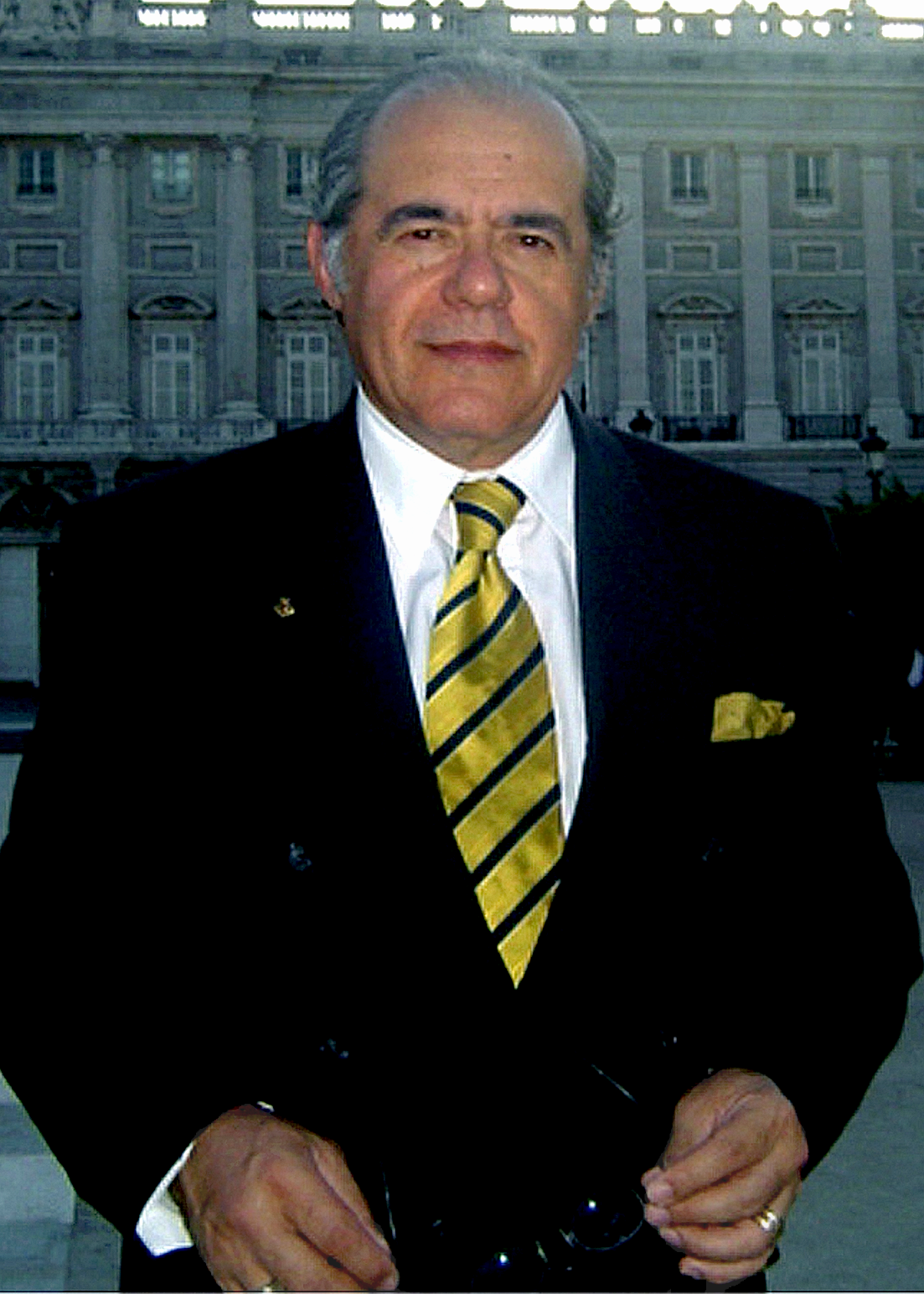 Transcription of the text in the source-page "Image details: The picture was taken by secretary Agneta Carlsson during an unofficial tour in Plaza de Oriente (Madrid) on occasion of our conference at the Complutense University of Madrid, 2003. The photo was taken using my private-owned camera and the original is in my property. This was the picture I used in my personal homepage (CV) at the University of Gävle 2003-2008, and I posted here also for public domain, copyrights exempted. Applicable as well to the close-up picture of this image ("2003"), posted under item "5. Portrait photos" down-below."